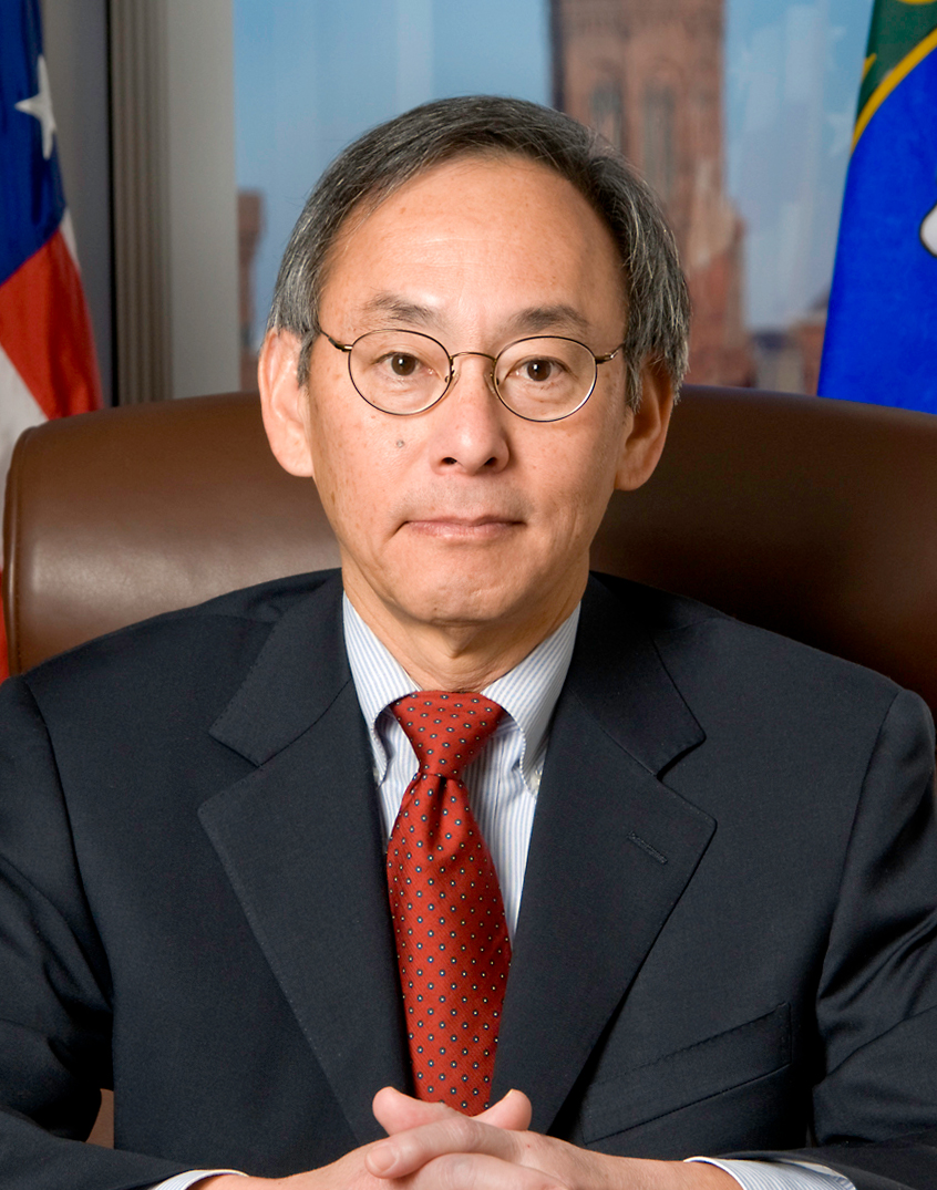 Official portrait of United States Secretary of Energy Steven Chu.